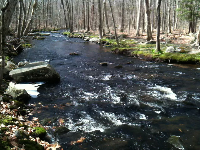 Aspetuck Valley Trail. Blue-Blazed CFPA foot path in Connecticut Centennial Watershed State Forest which connects to Huntington State Park at the northern terminus and which follows the Aspetuck River from Newtown, CT through Redding and Easton, CT. Aspetuck River - Spring stream with rapids along southern Aspetuck Valley Trail after it leaves Poverty Hollow Road road walk (near end of trail). Blue-Blazed CFPA foot path in Connecticut Centennial Watershed State Forest which connects to Huntington State Park at the northern terminus and which follows the Aspetuck River from Newtown, CT through Redding and Easton, CT.